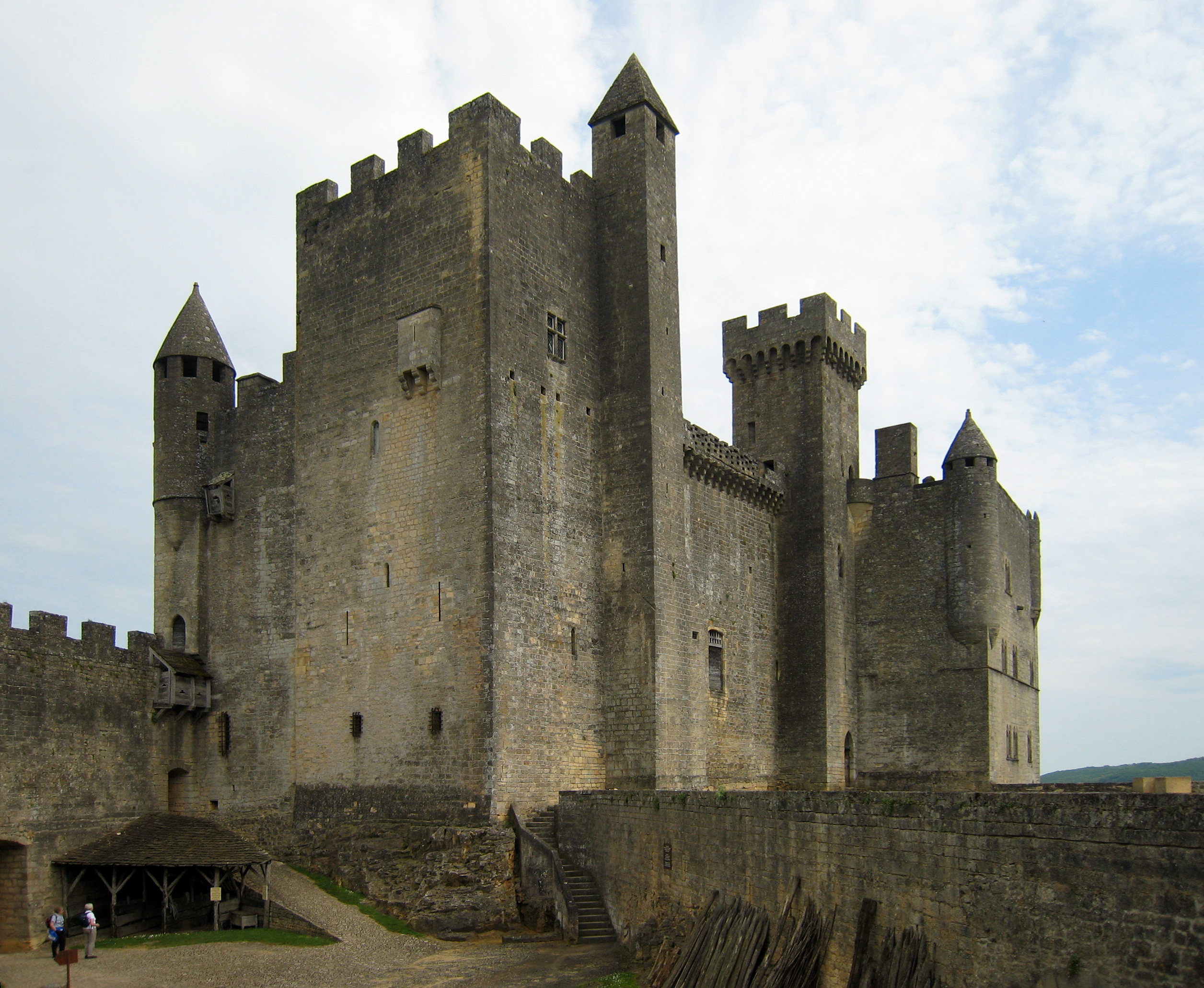 Château de Beynac, situated in the village of Beynac-et-Cazenac in the Département of Dordogne/France - the keep and adjacent seigniorial buildings